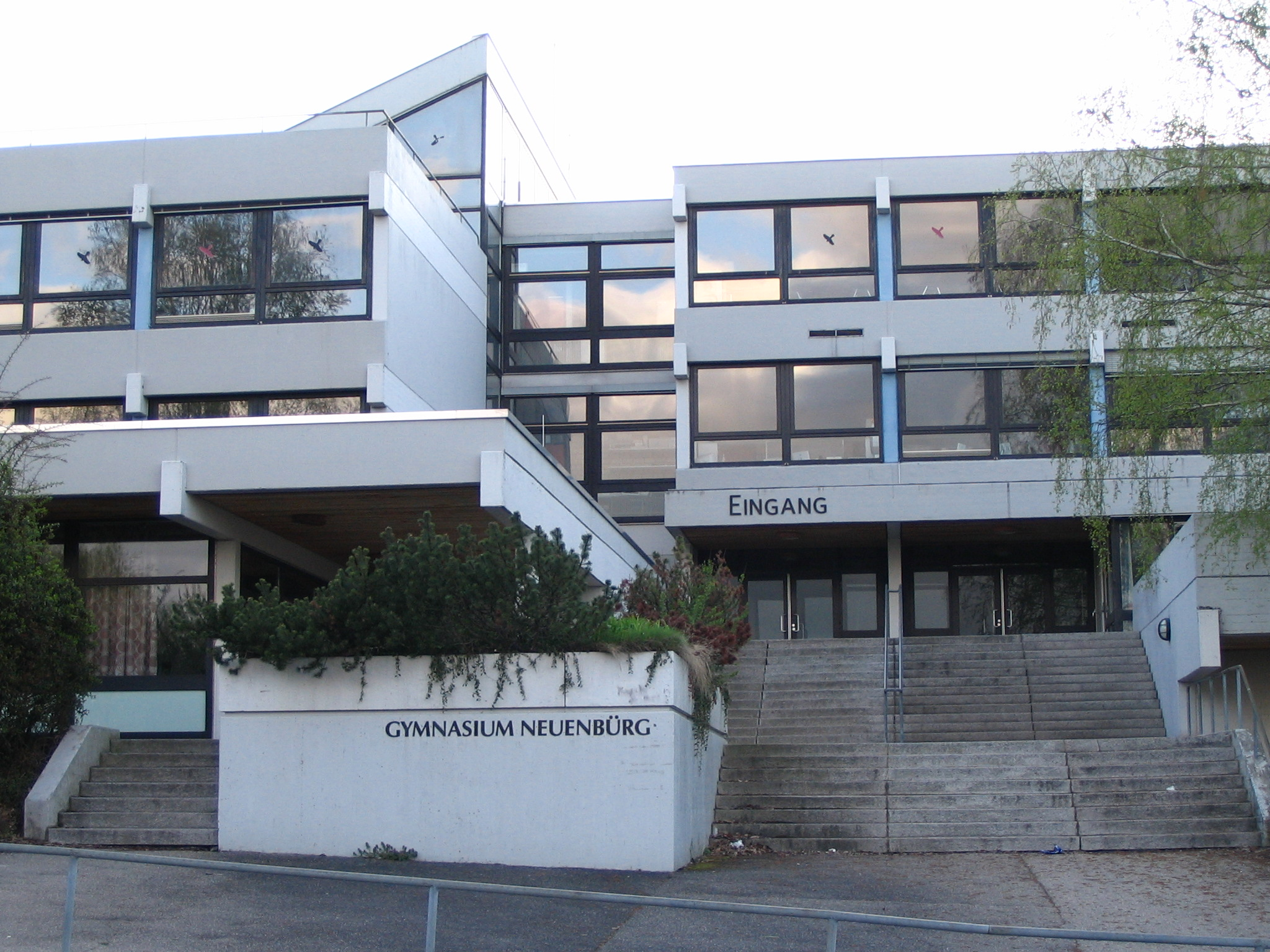 Main entrance of Gymnasium (secondary school) in Neuenbürg, Germany